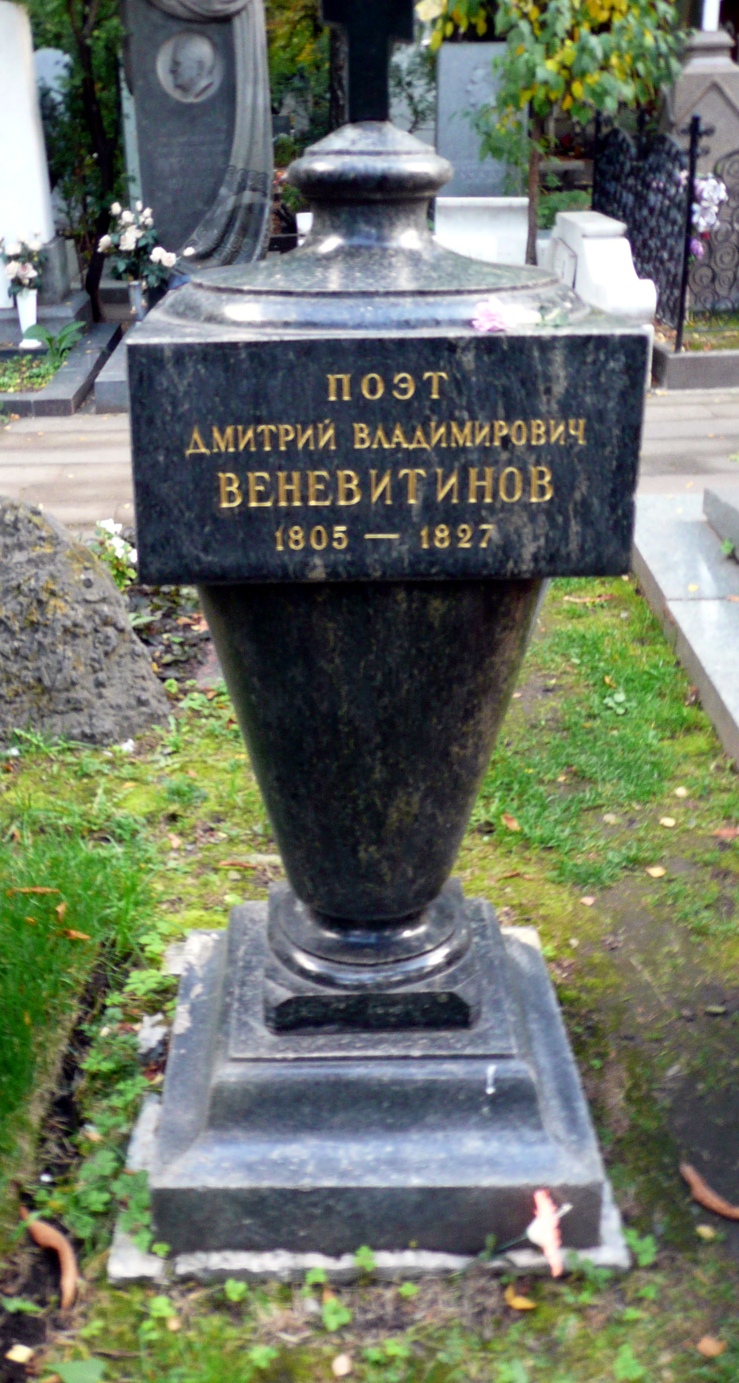 Tomb of Dmitrij Venevitinov, Novodevichy Cemetery, Moscow (Originally buried in the Simonov Monastery)